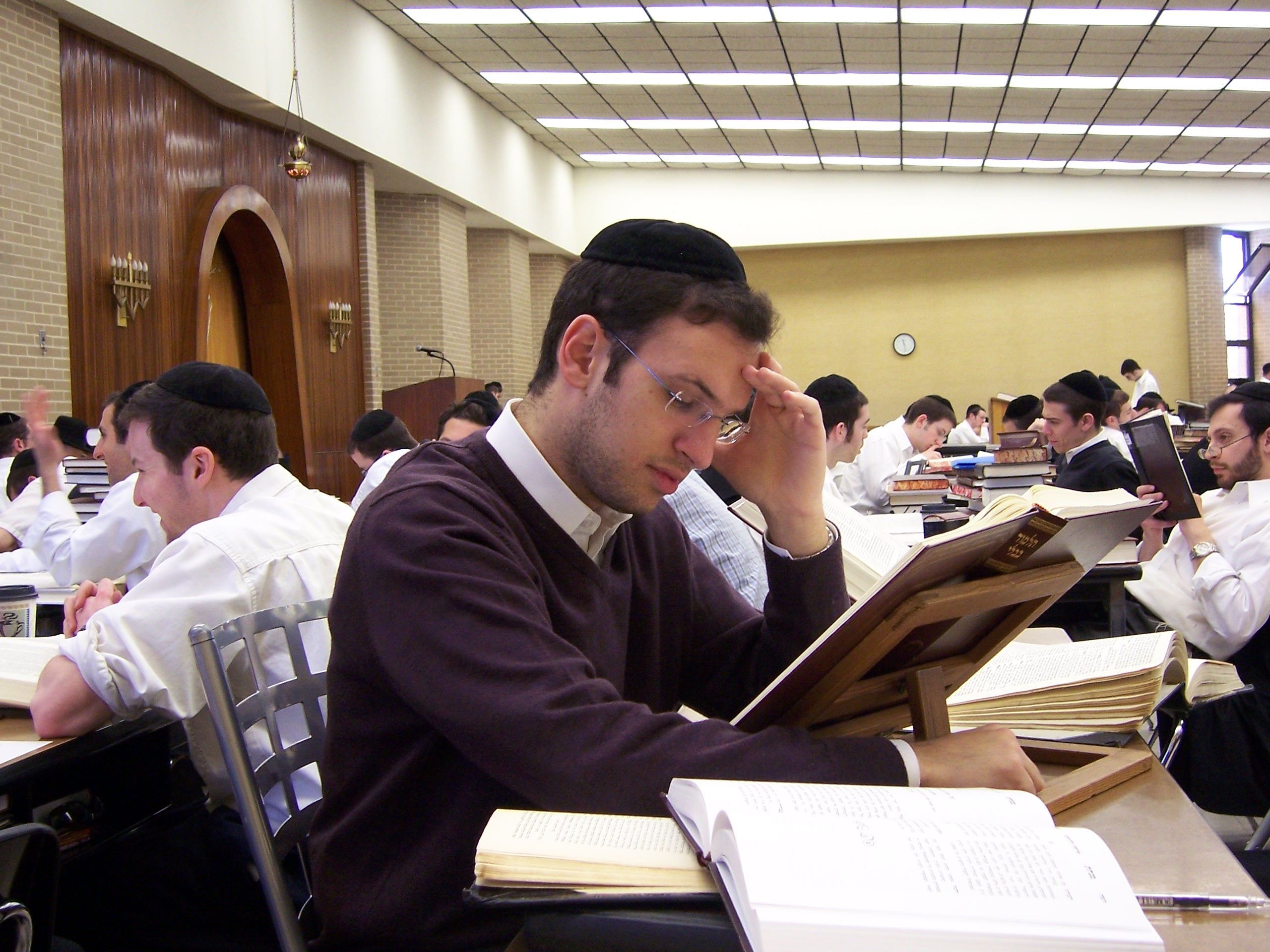 A student inside the Bais Medrash of Yeshivas Ner Yisroel of Baltimore.